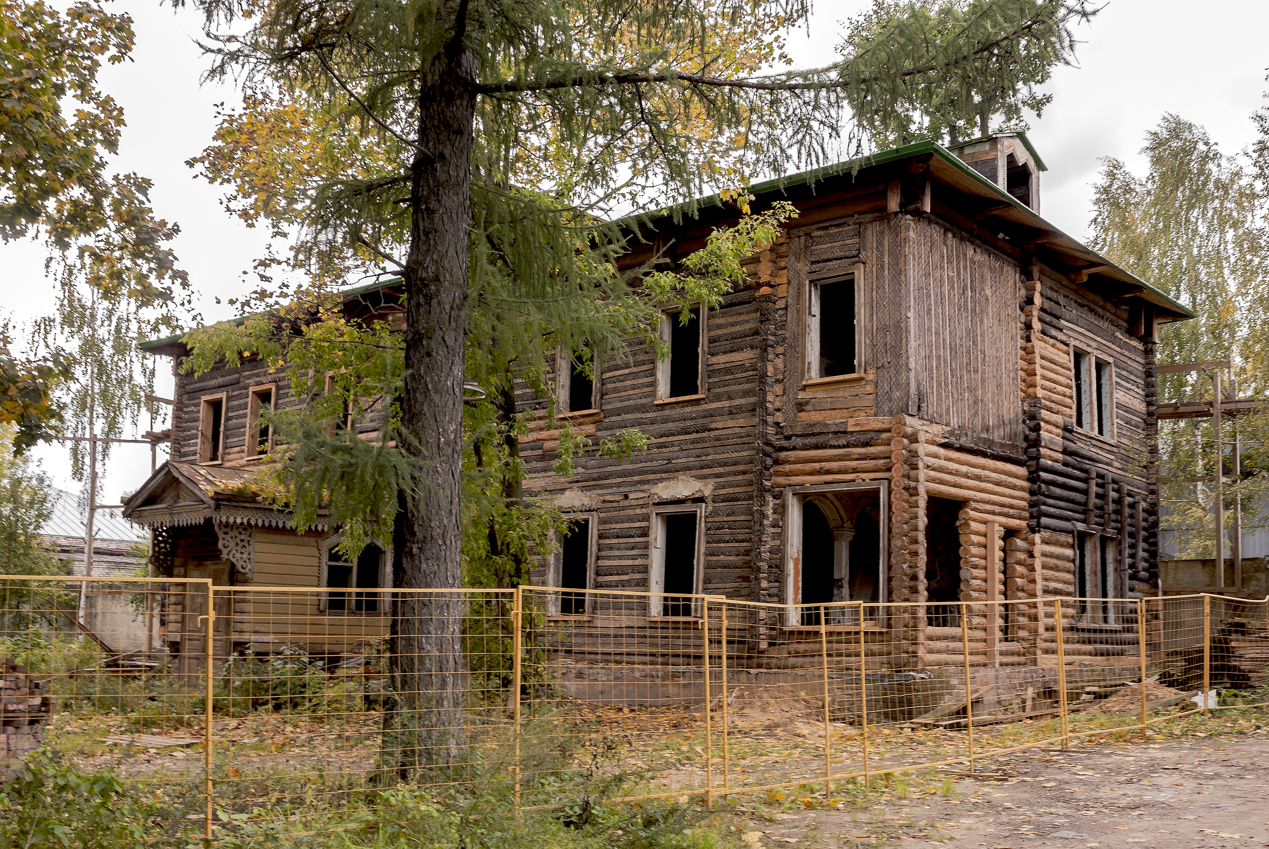 Residential building factory manager: Sovetskaya, 29a, Balashikha, Moscow region